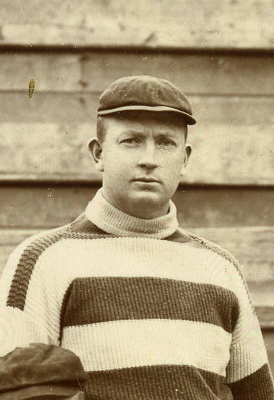 Cy Young of the 1898 Cleveland Spiders at spring training in Hot Springs, Arkansas, March 1899